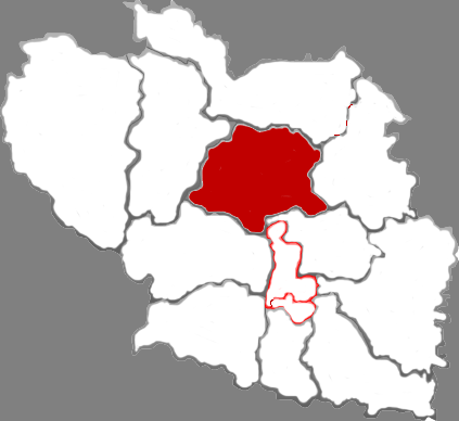 Location of Xiangyuan county in Changzhi City, China